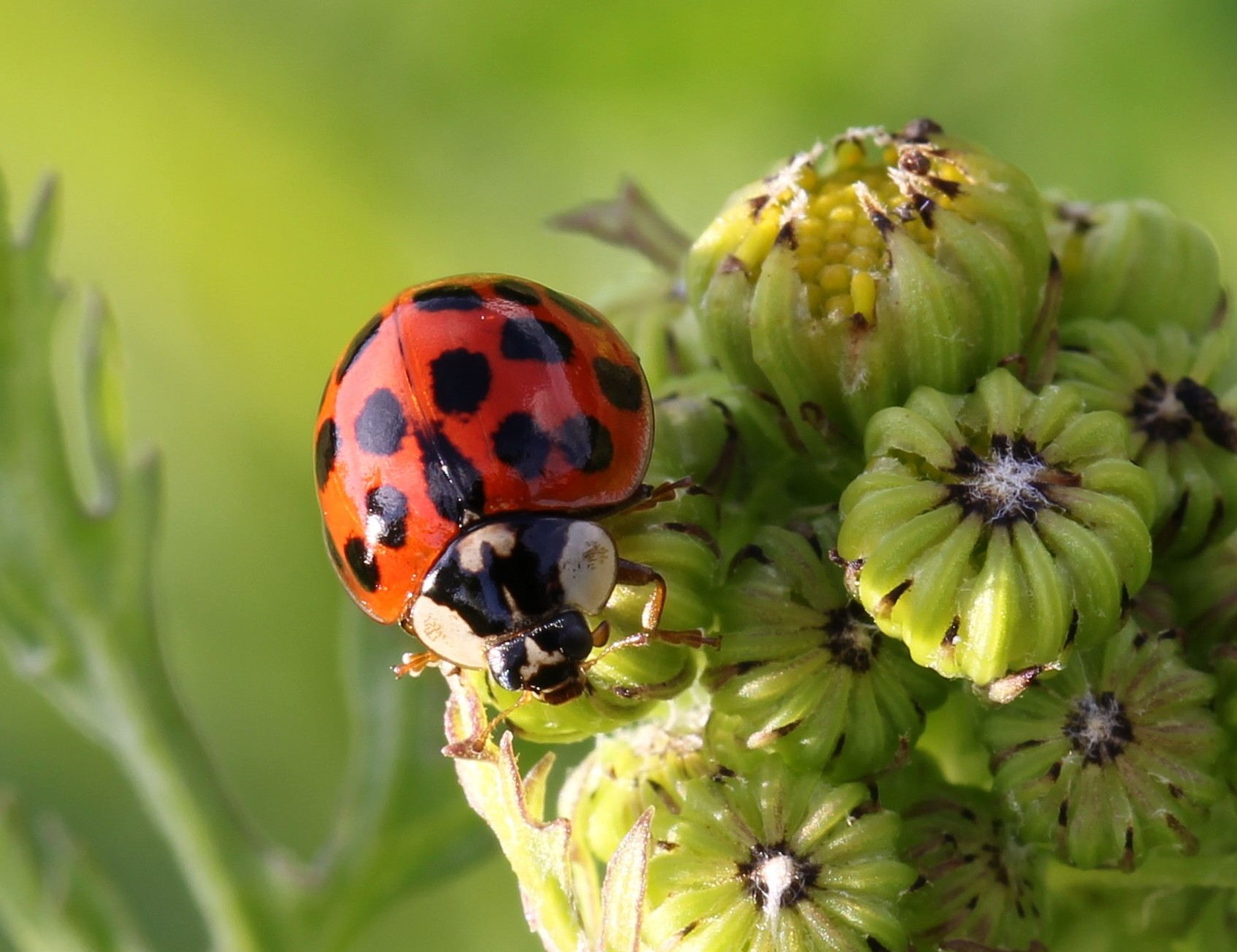 Harlequin Lady beetle, Harmonia axyridis, taken in Enfield, UK